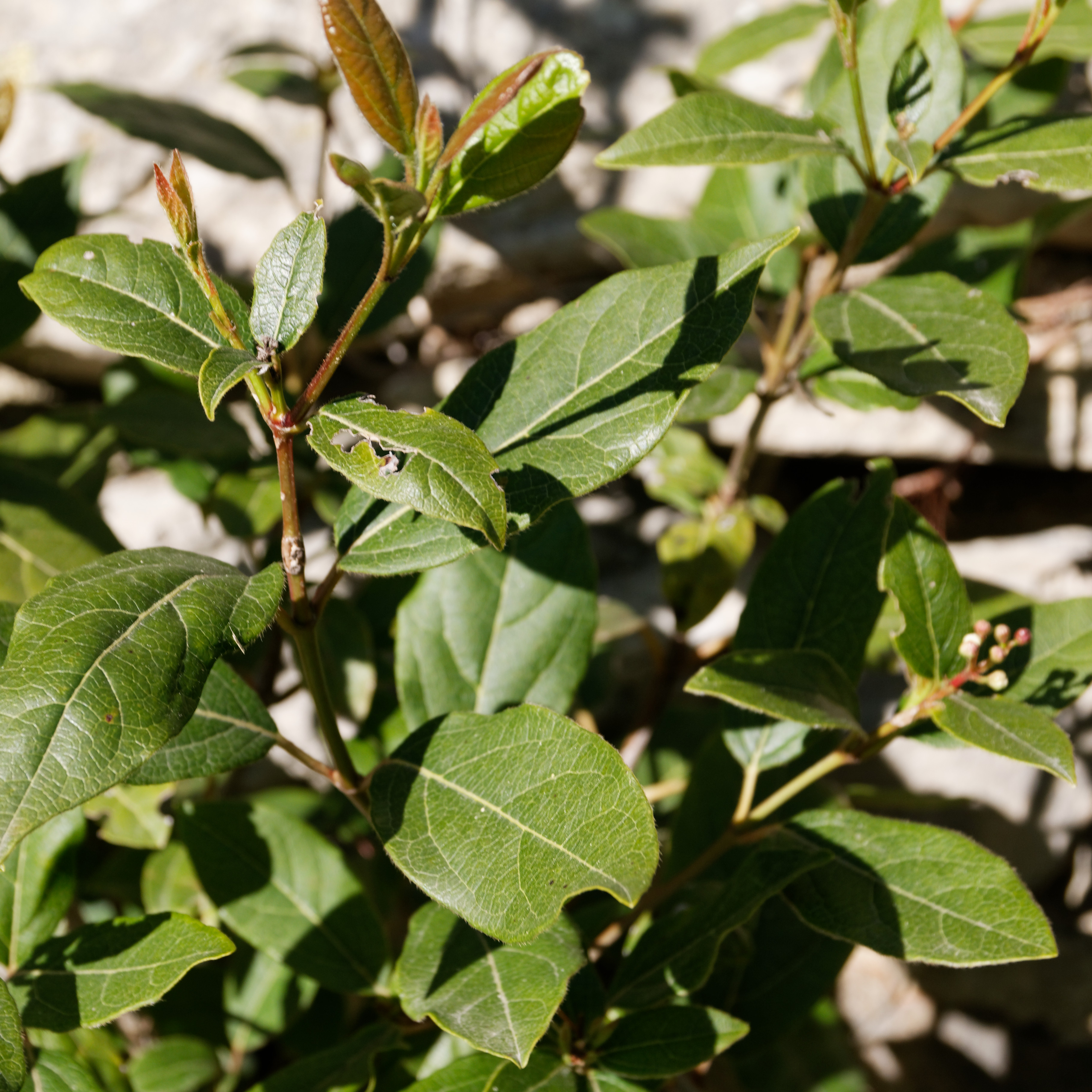 Leaves of Laurustinus.